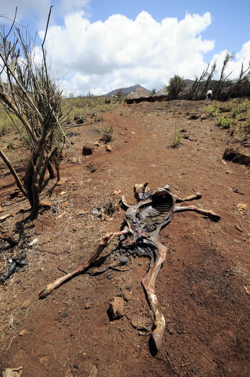 Pic by Neil Palmer (CIAT). A livestock carcass in Marsabit, in Northern Kenya, which has suffered prolonged drought. A livestock insurance scheme has made its first payouts to small livestock keepers in the region.